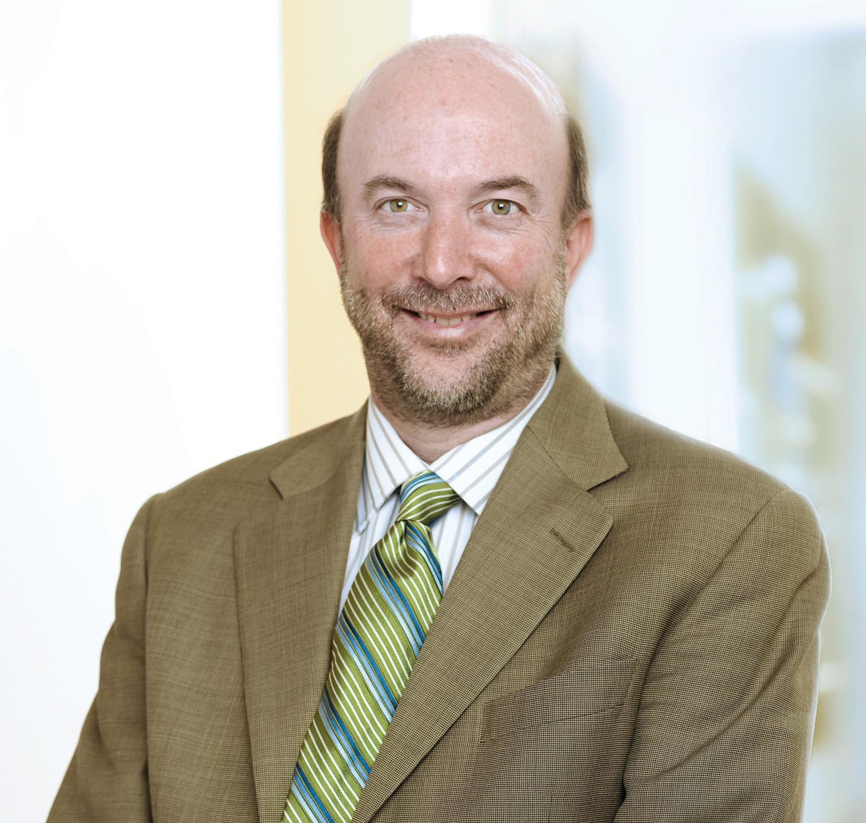 Luc Vinet